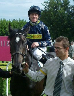 Jockey Kieren Fallon on Start Right at Goodwood Racecourse on 27 July 2010.